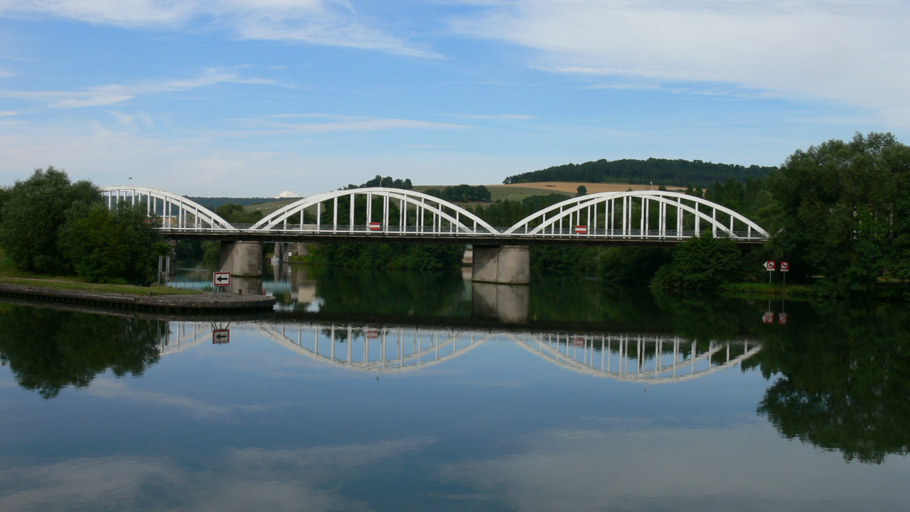 Bow-string bridge